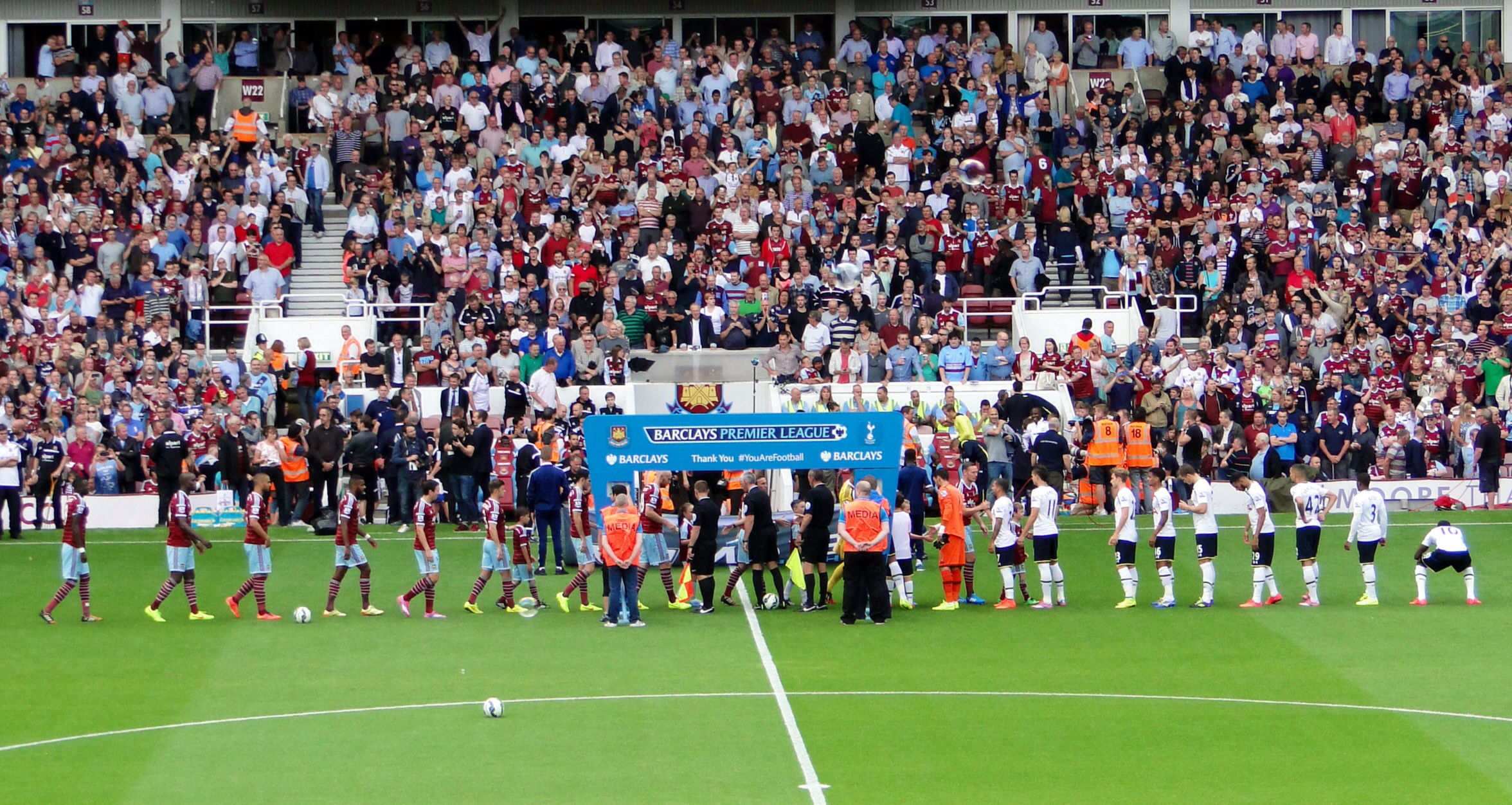 The players of West Ham United and Tottenham Hotspur line up before their Premier League game at the Boleyn Ground, August 2014.